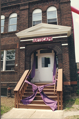 60 Atlantic Avenue, Toronto, Ontario, Canada. The building is occupied by work studios and offices for artists, designers and new media companies, with the building owned and managed by Artscape.